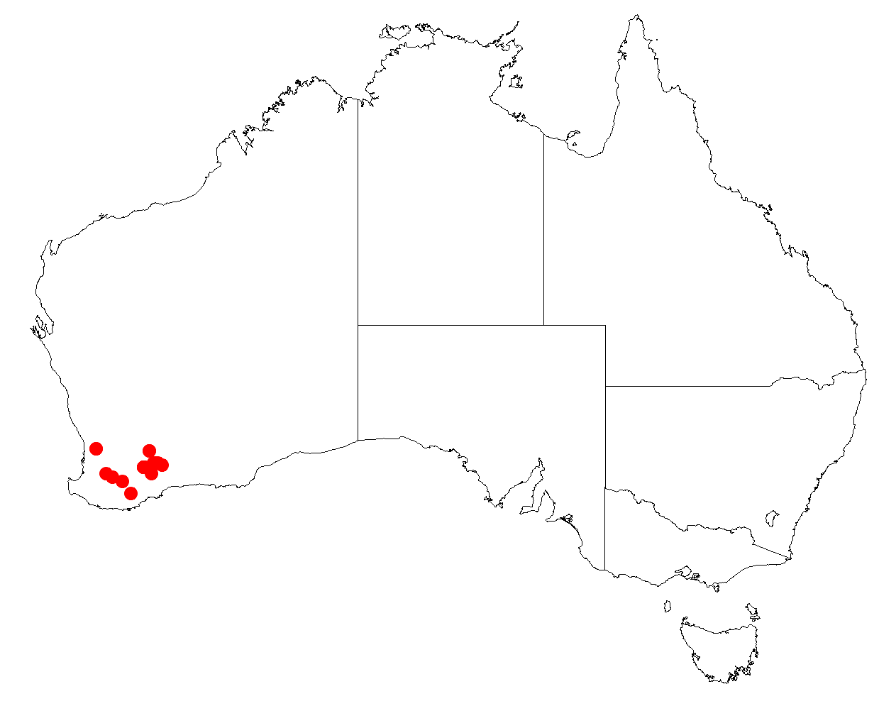 Tribonanthes purpurea occurrence data downloaded from Australasian Virtual Herbarium on 12 May 2017 (all Haemodoraceae)